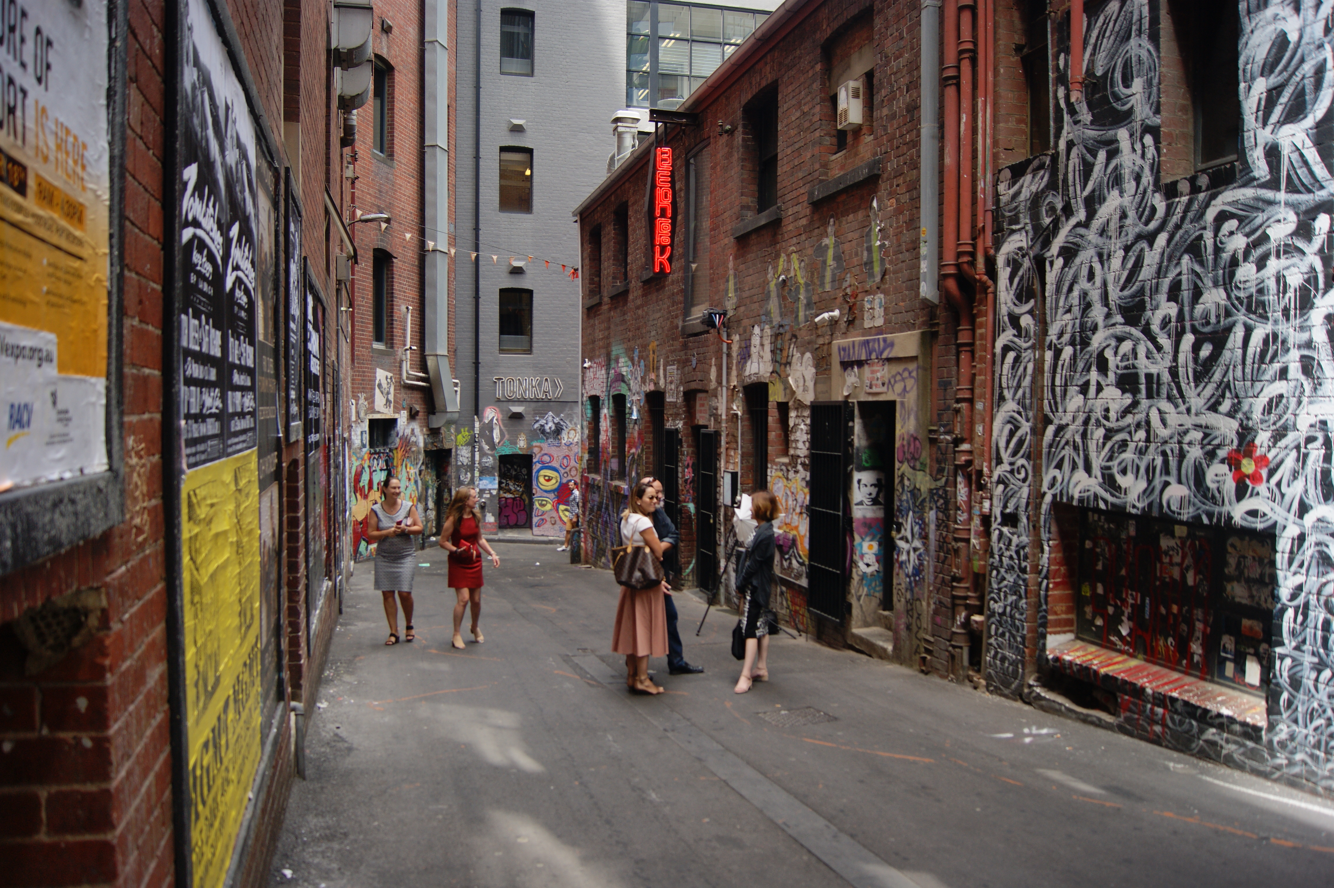 Melbourne has been placed alongside New York and Berlin as one of the world's great street art meccas, and its extensive street art-laden laneways, alleys and arcades were voted by Lonely Planet readers as Australia's top cultural attraction.